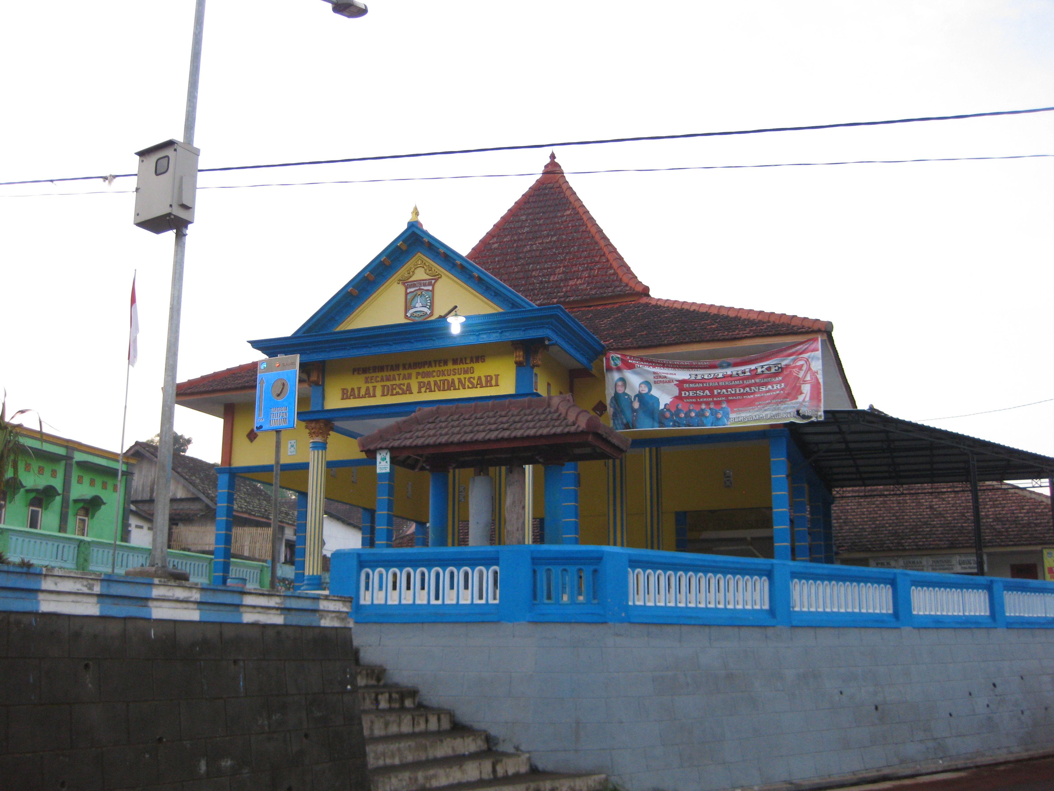 The village meeting hall of Pandansari Village in Malang, Indonesia.